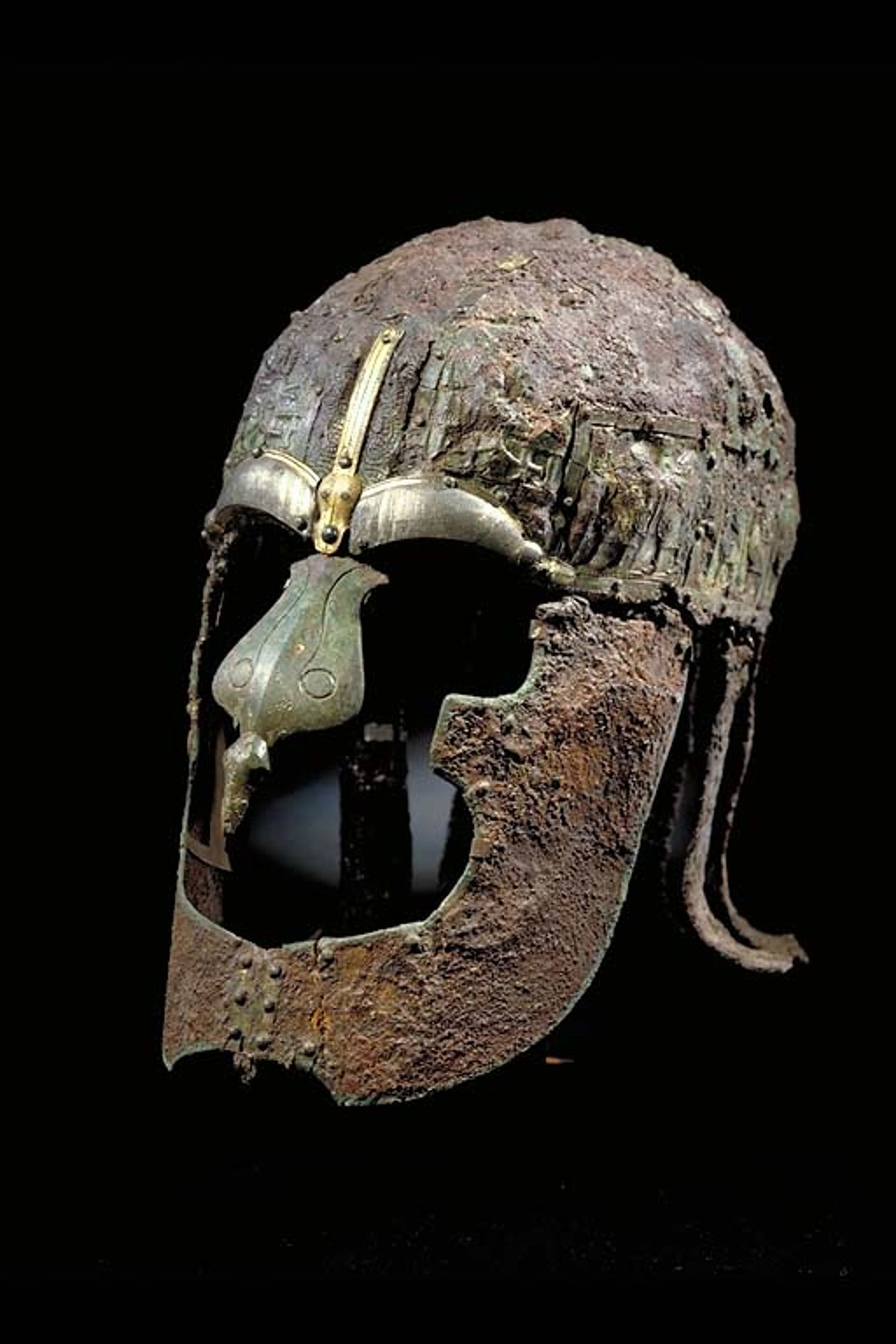 The Vendel XIV helmet at the Statens historiska museum